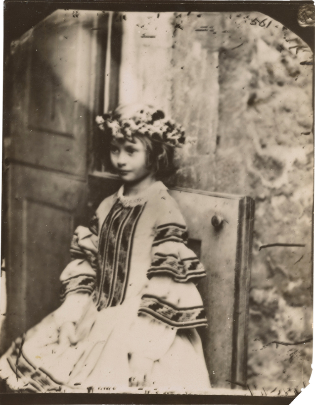 Lewis Carroll (1832–1898). Alice Liddell in a wreath as “Queen of May,” 1860, Albumen print, Photograph by Lewis Carroll (1832–1898). Gift of Arthur A. Houghton, Jr., The Morgan Library & Museum, Photography by Graham S. Haber, 2015